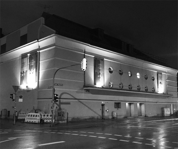 The nightclub Blow Up in Munich (1967–1970), Germany's first large-scale discotheque.